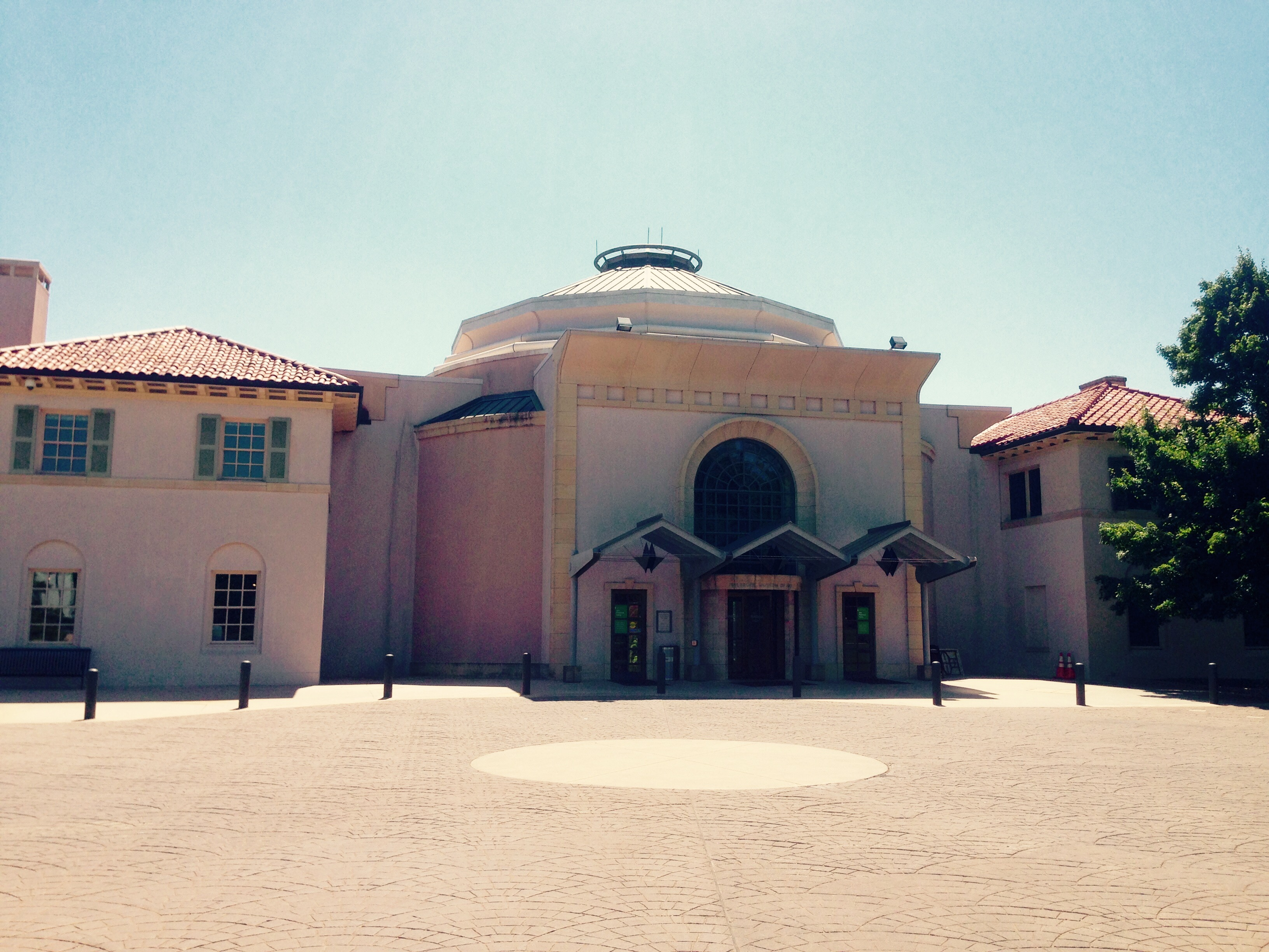 Philbrook Museum of Art Public Entrance